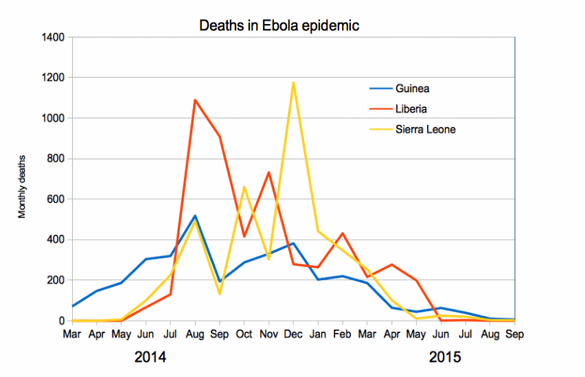 This shows the monthly aggregate in Ebola deaths in the West Africa epidemic 2014-15. The data is drawn from the WHO Situation reports (apps.who.int) with early data from CDC